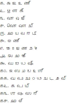 Pratyāhāra Sūtras in Grantha Script